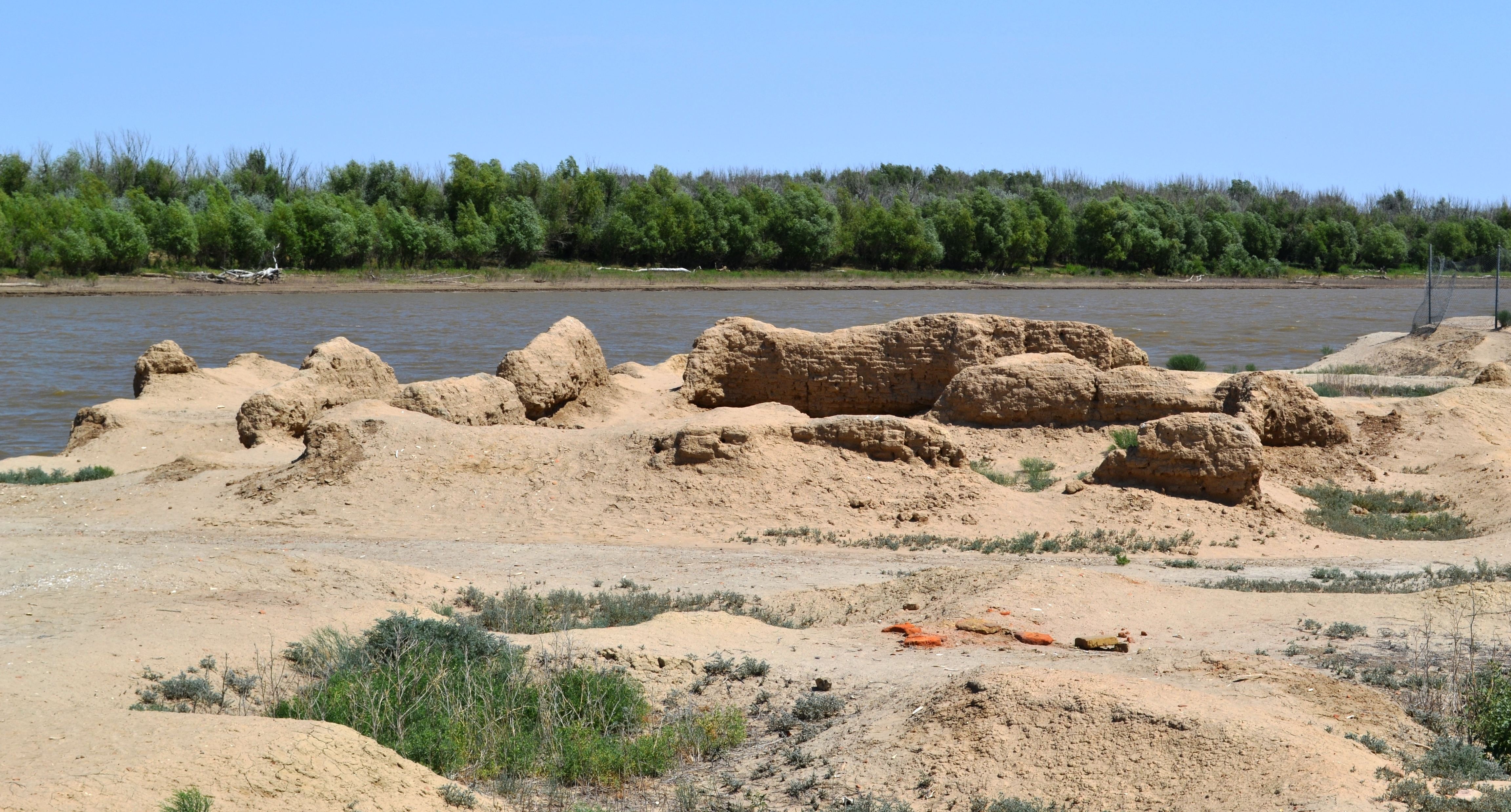 Saraishik